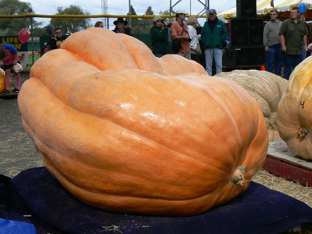 Atlantic Giant pumpkin at a weigh-off in California.